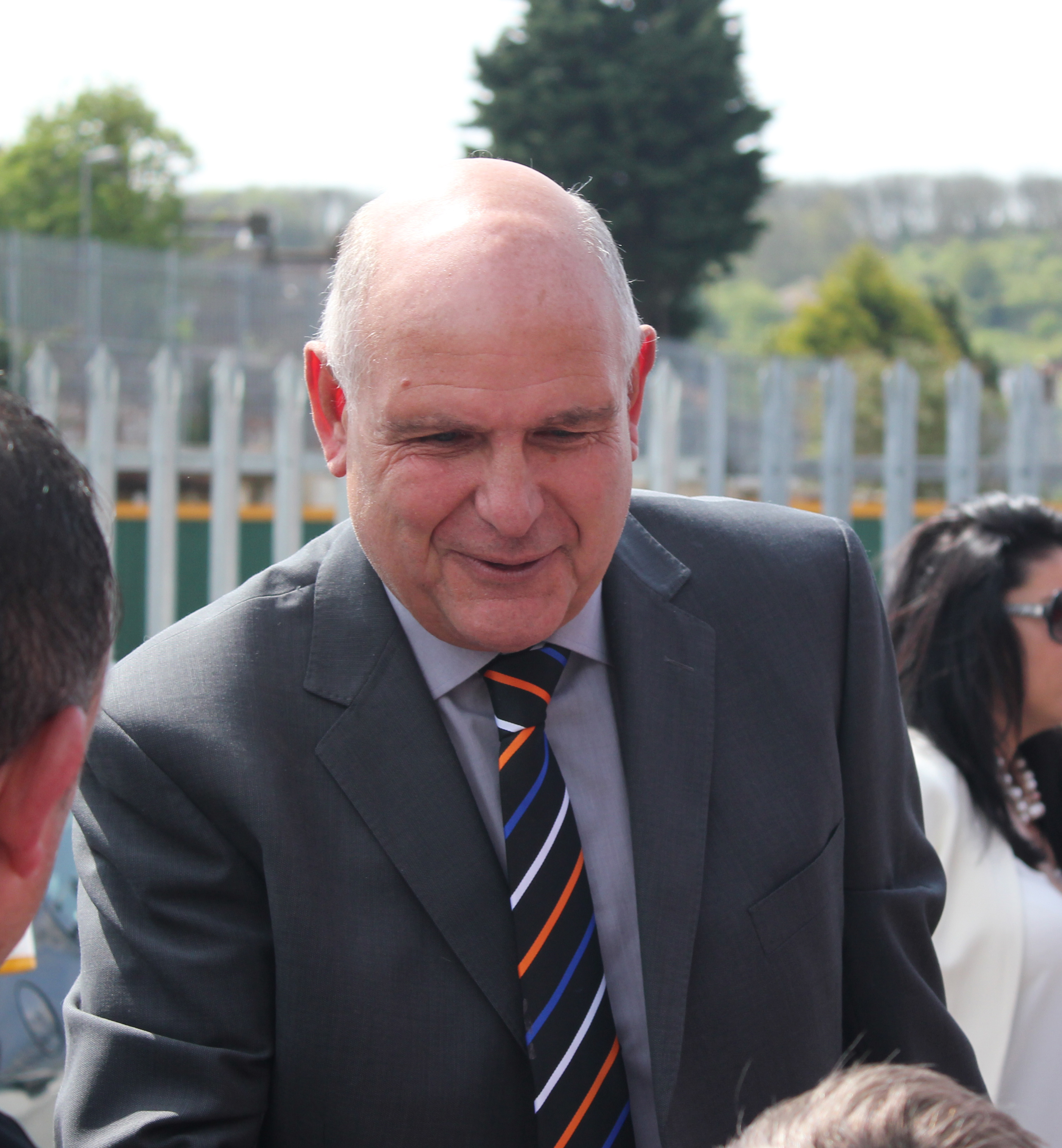 Luton Town manager John Still greeting fans at Kenilworth Road prior to the Civic Reception